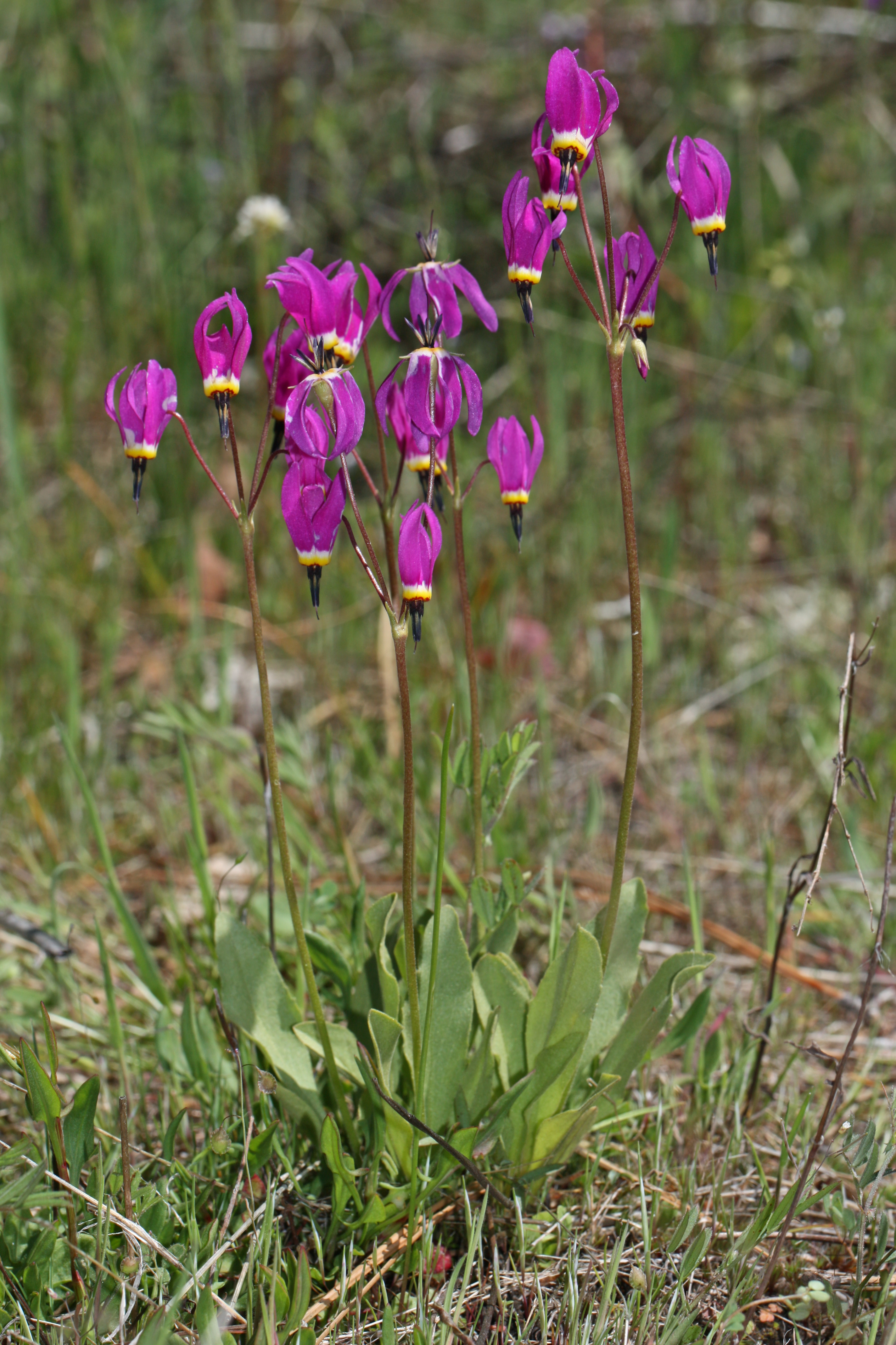 Poet's Shooting Star, Narcissus Shooting Star, Poet's Shootingstar Viewpoint location: Catherine Creek Trail (north of road), Catherine Creek Day Use Area Viewpoint elevation: 191 meter (627 ft) Location source: Google Earth Location Datum: WGS84